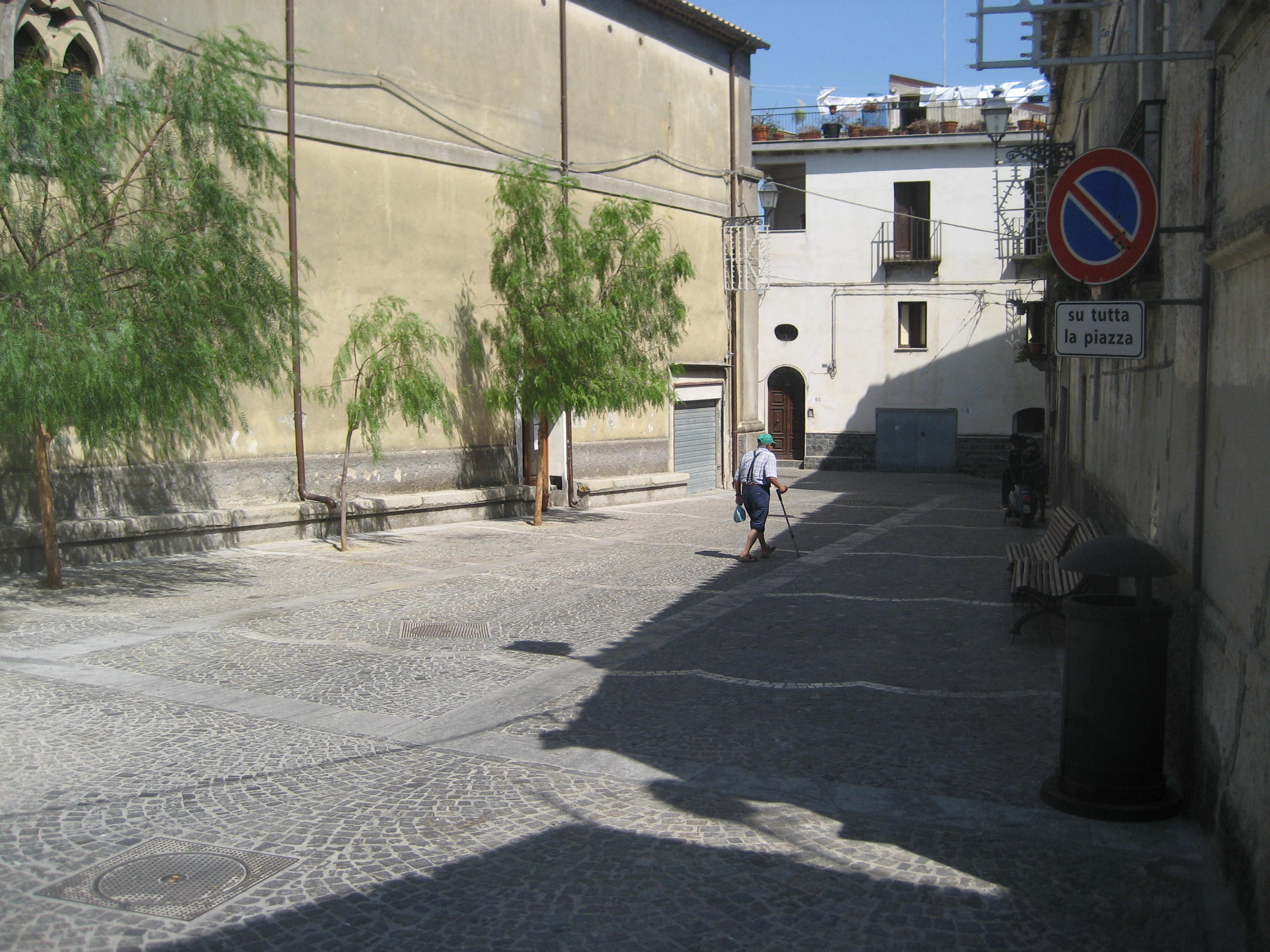 Square of Camini (RC) - Italy